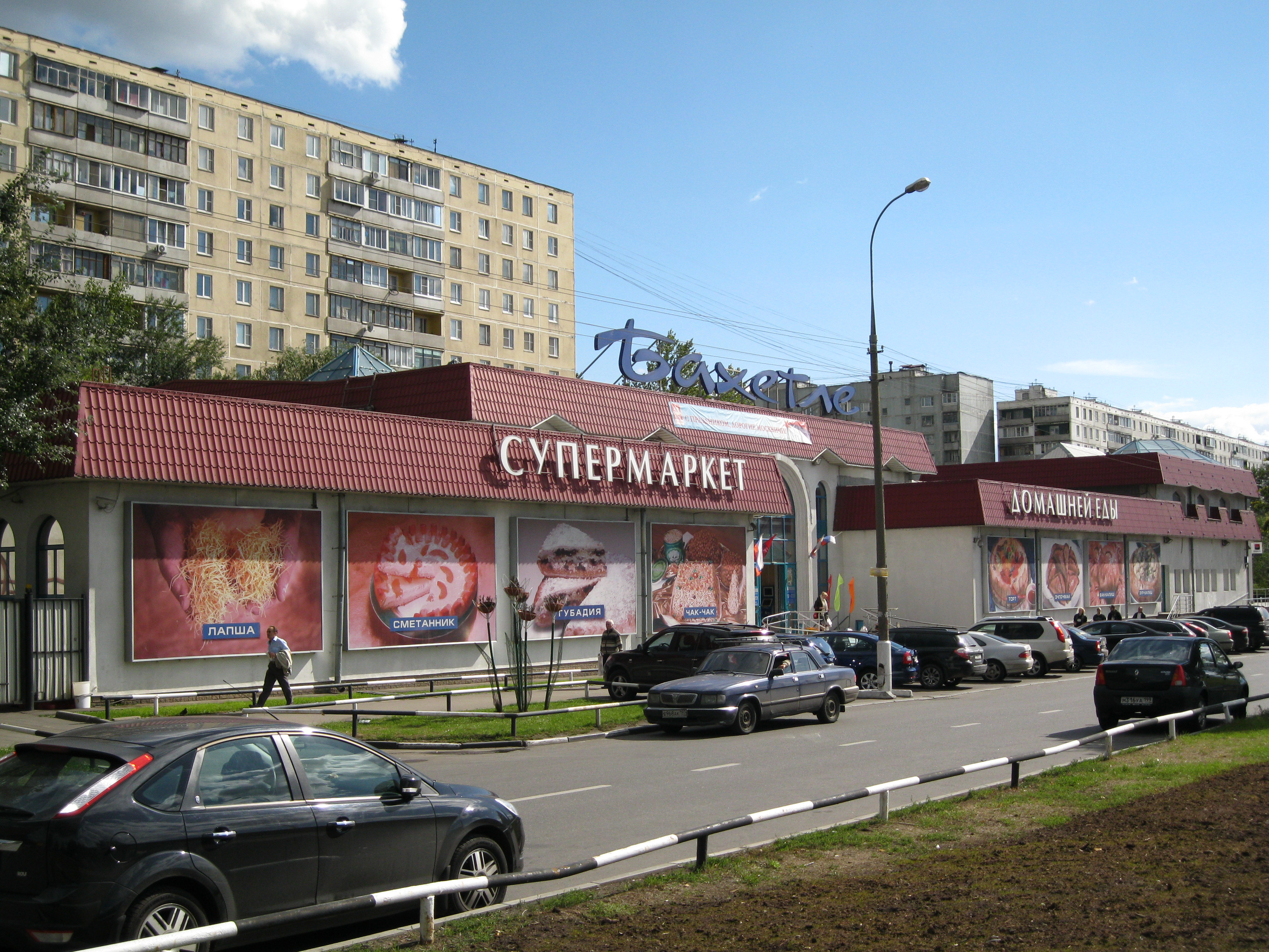 «Bakhetle» supermarket in Moscow, Russia